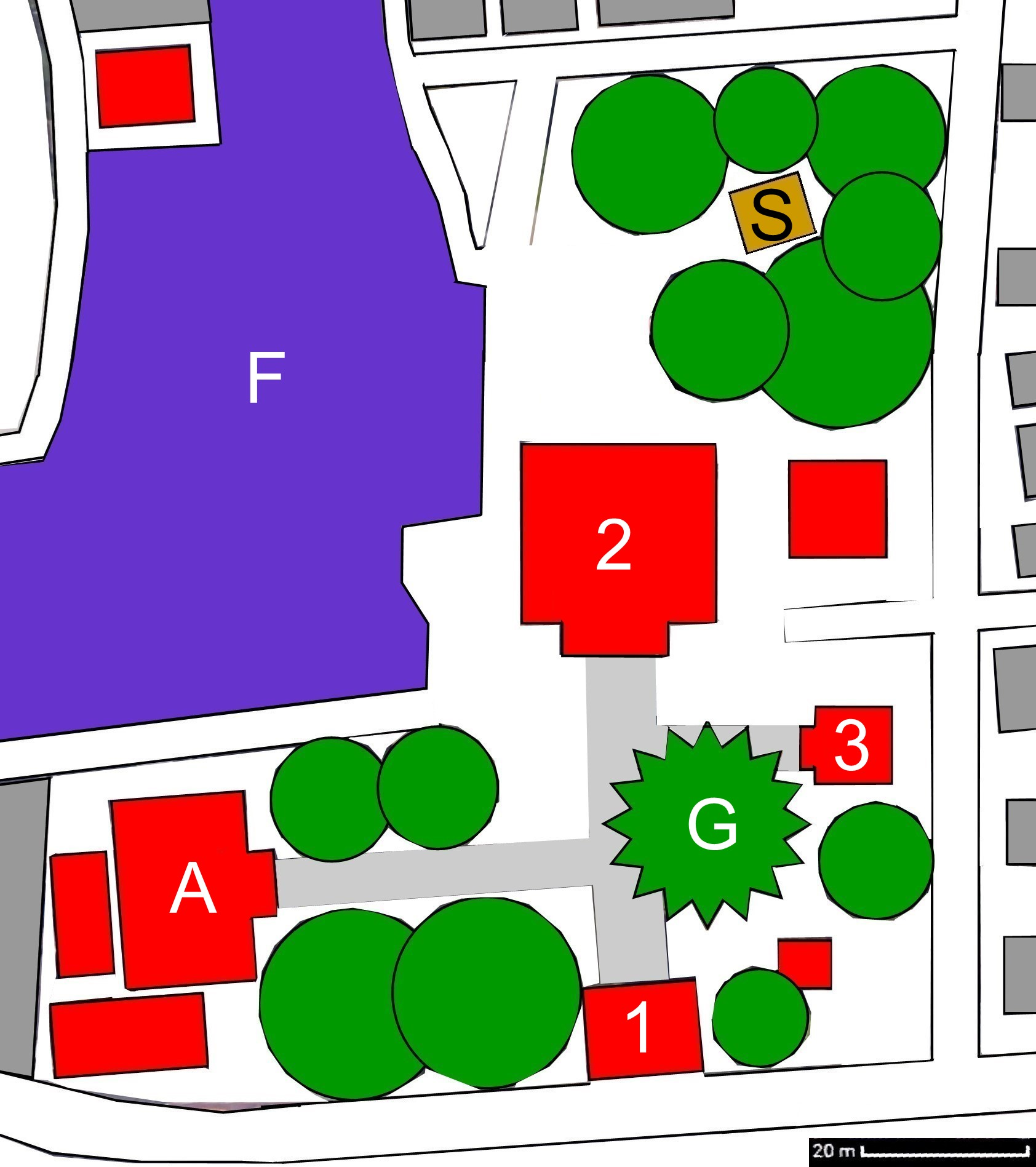 Layout of Senyô-ji temple at Chiba, Japan